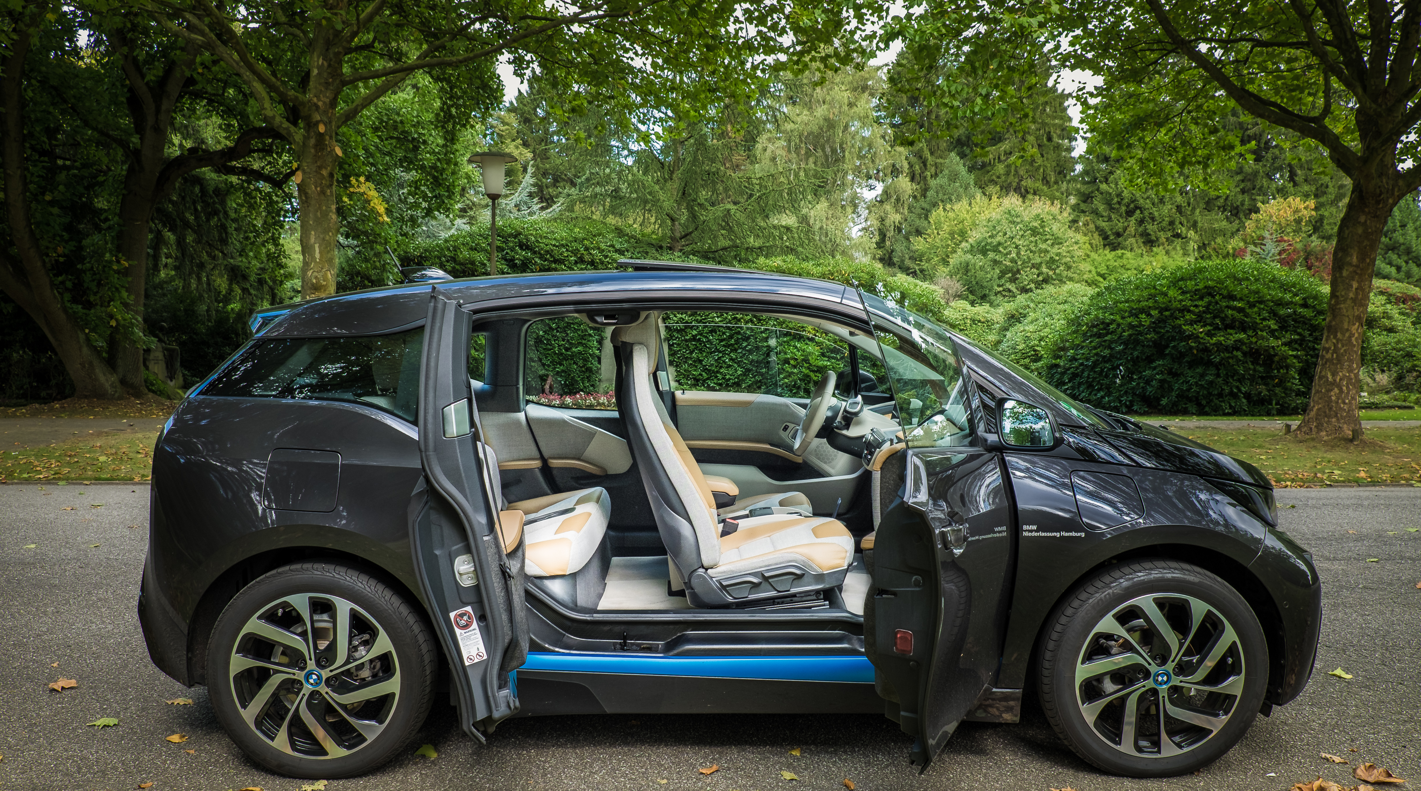 BMW i3 - Side Doors open